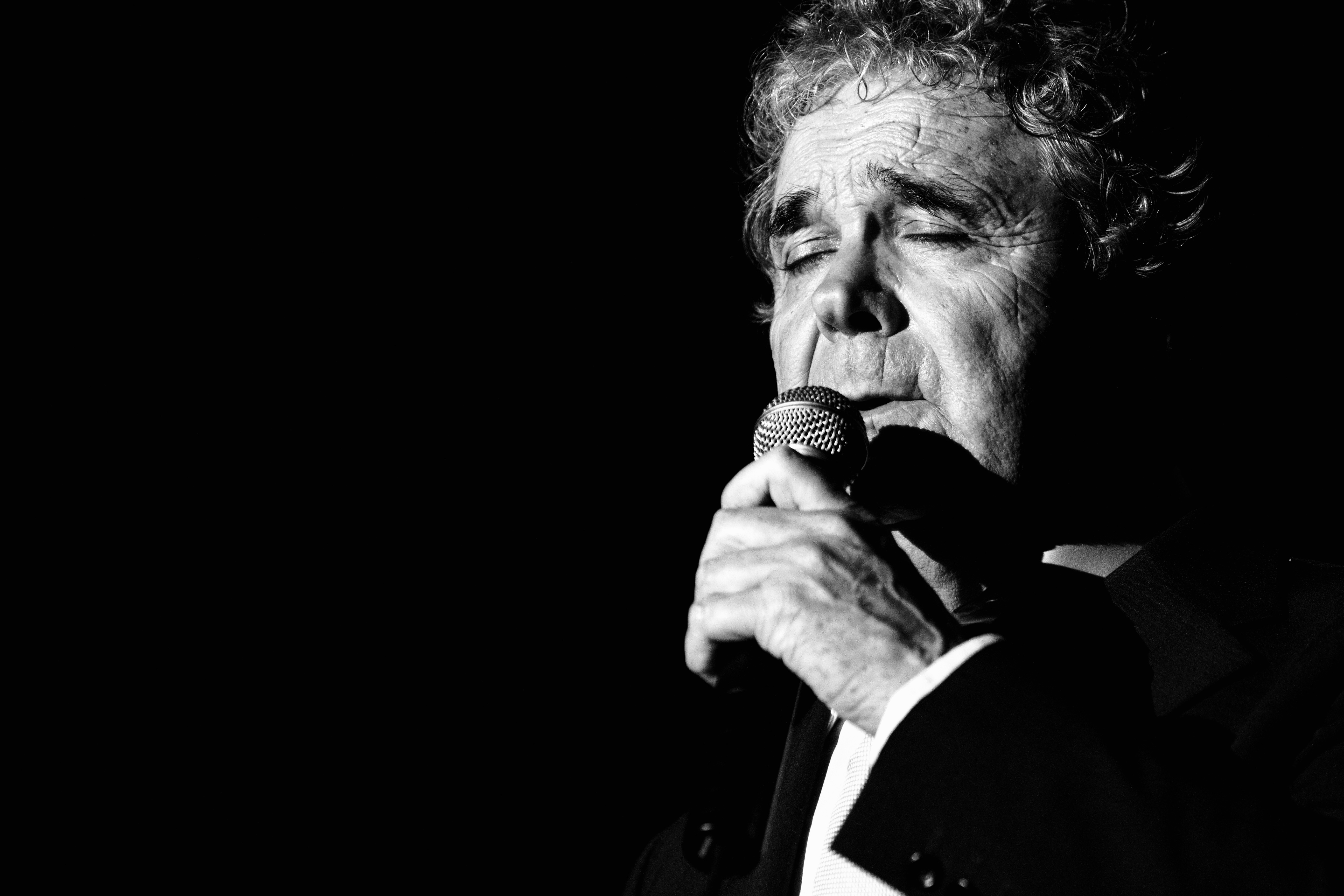 Pierre Perret live during the French song festival 2010 in Aix-en-Provence (France).